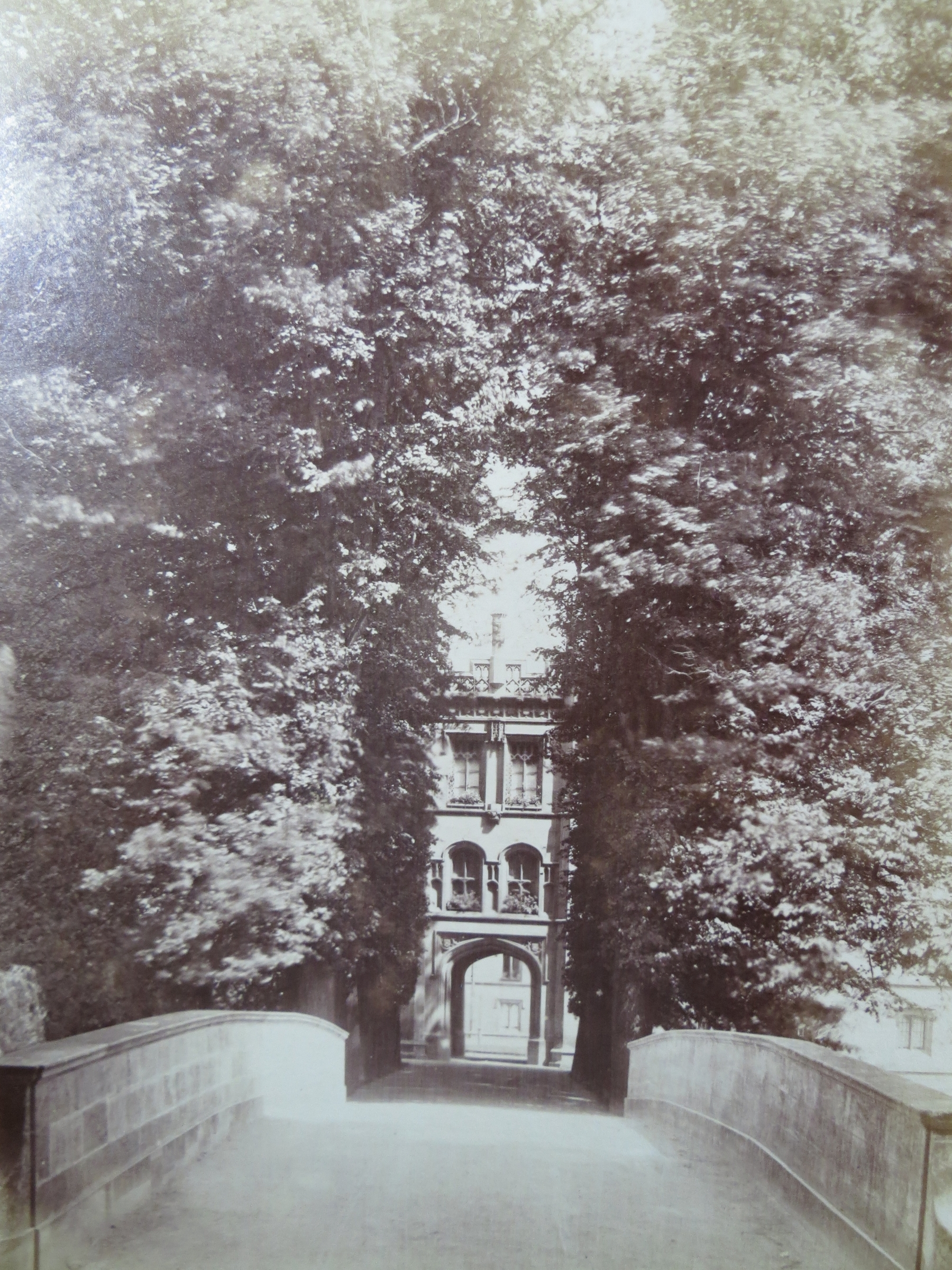 Trinity Bridge, Cambridge University, circa 1870. Image taken from original albumen print from a bound album of 58 Cambridge University photographs. Original 19th century album in the possession of Kimberly Blaker, New Boston Fine and Rare Books.